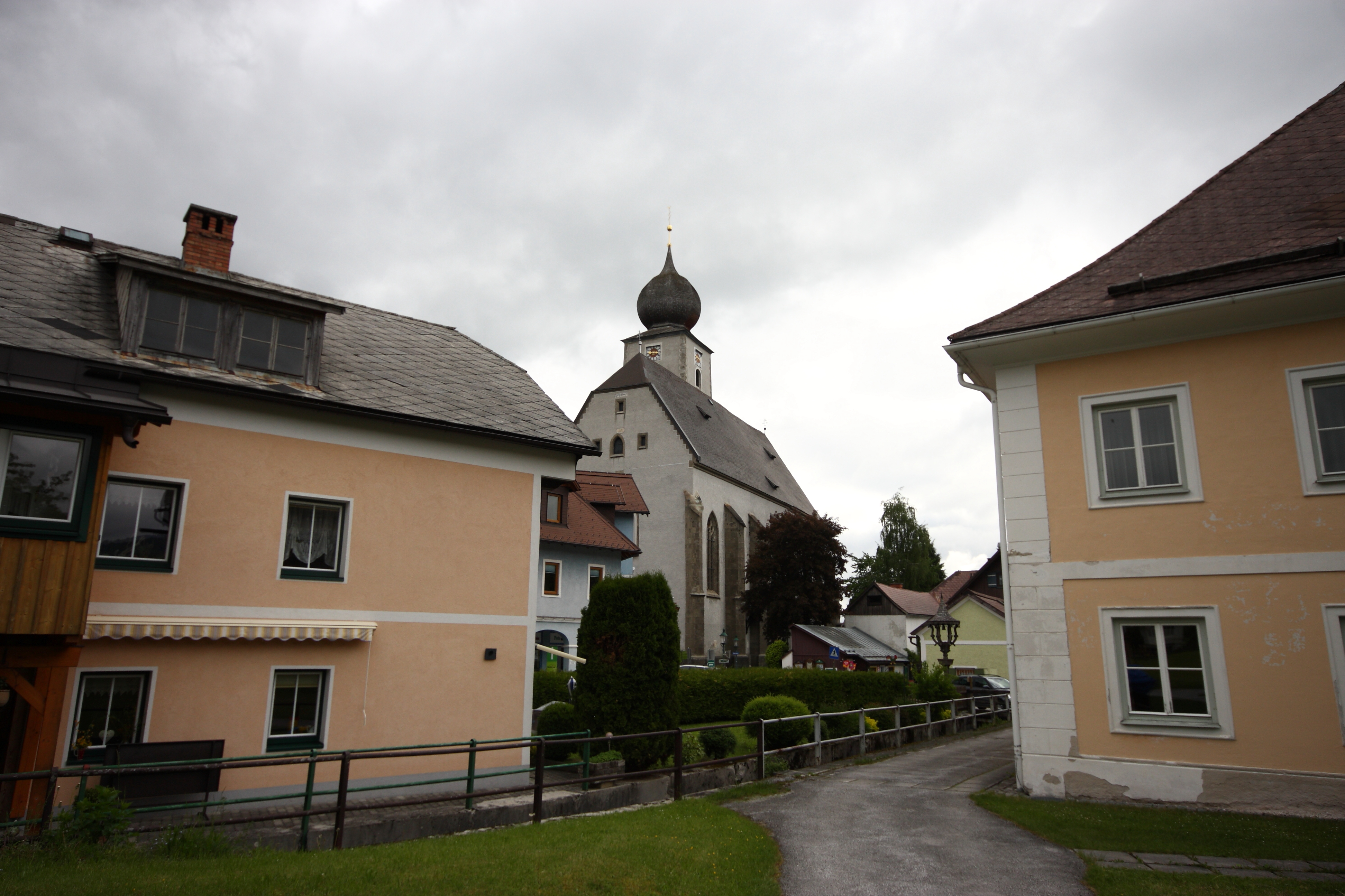 Church Mariä Himmelfahrt, Gröbming, Styria, Austria